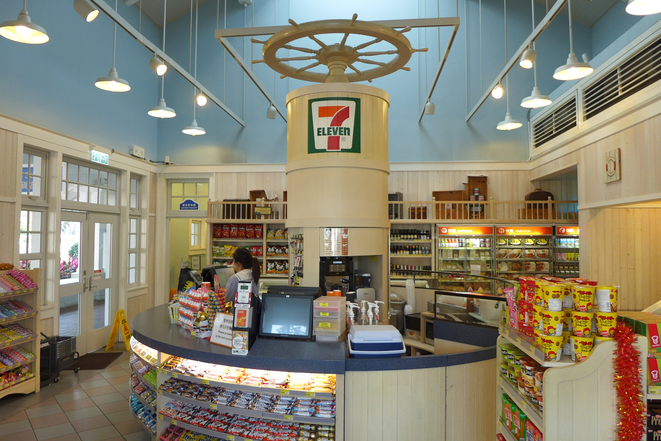 Inspiration Lake Recreation Centre